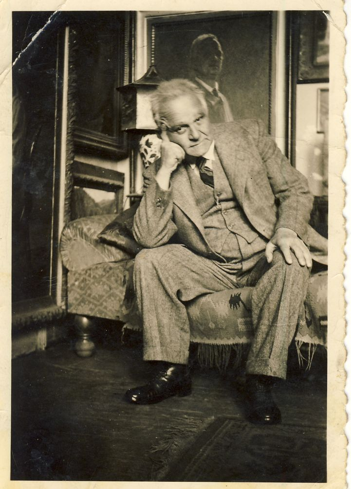 Félix Bódog Widder in his studio in Teréz körút, Budapest in the 1930s